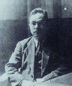 1946. 10. Pak Hon-yong. (Over 64year)